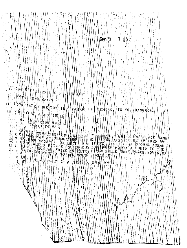 An example of shredded & reassembled documents from the former American Embassy in Tehran.